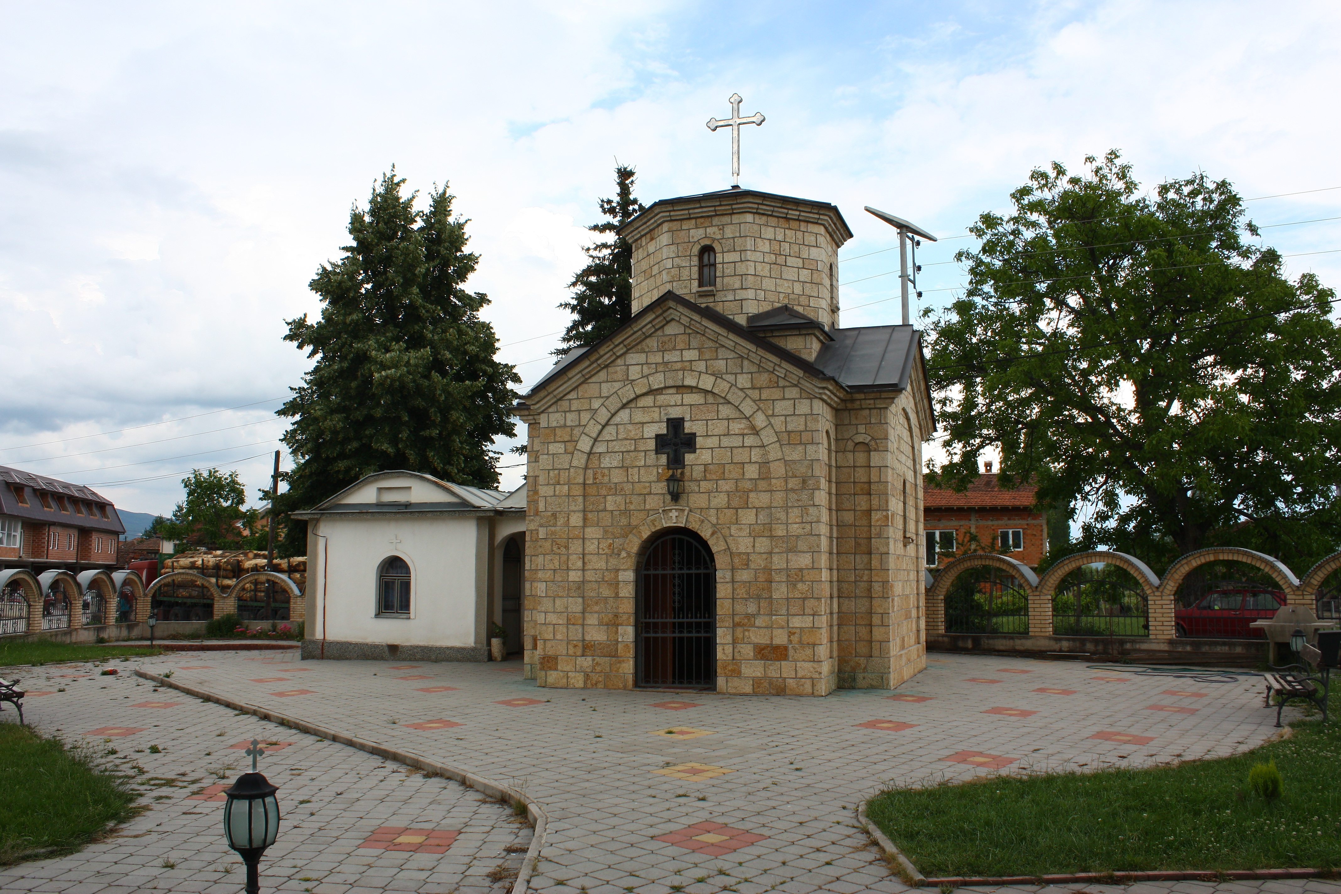 St. Paraskevi of Rome Church in Vranište, Macedonia